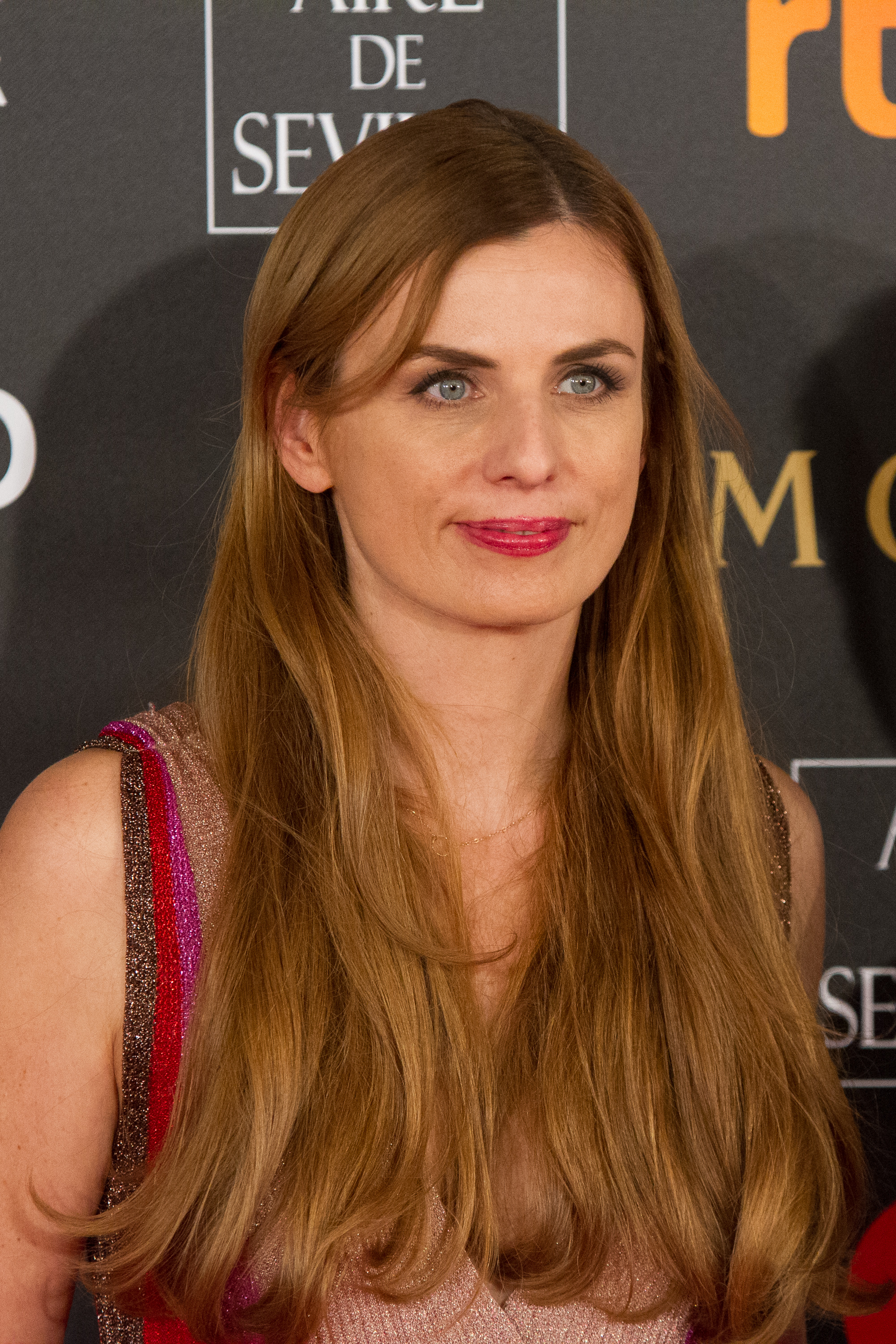 32nd Goya Awards, 2018.